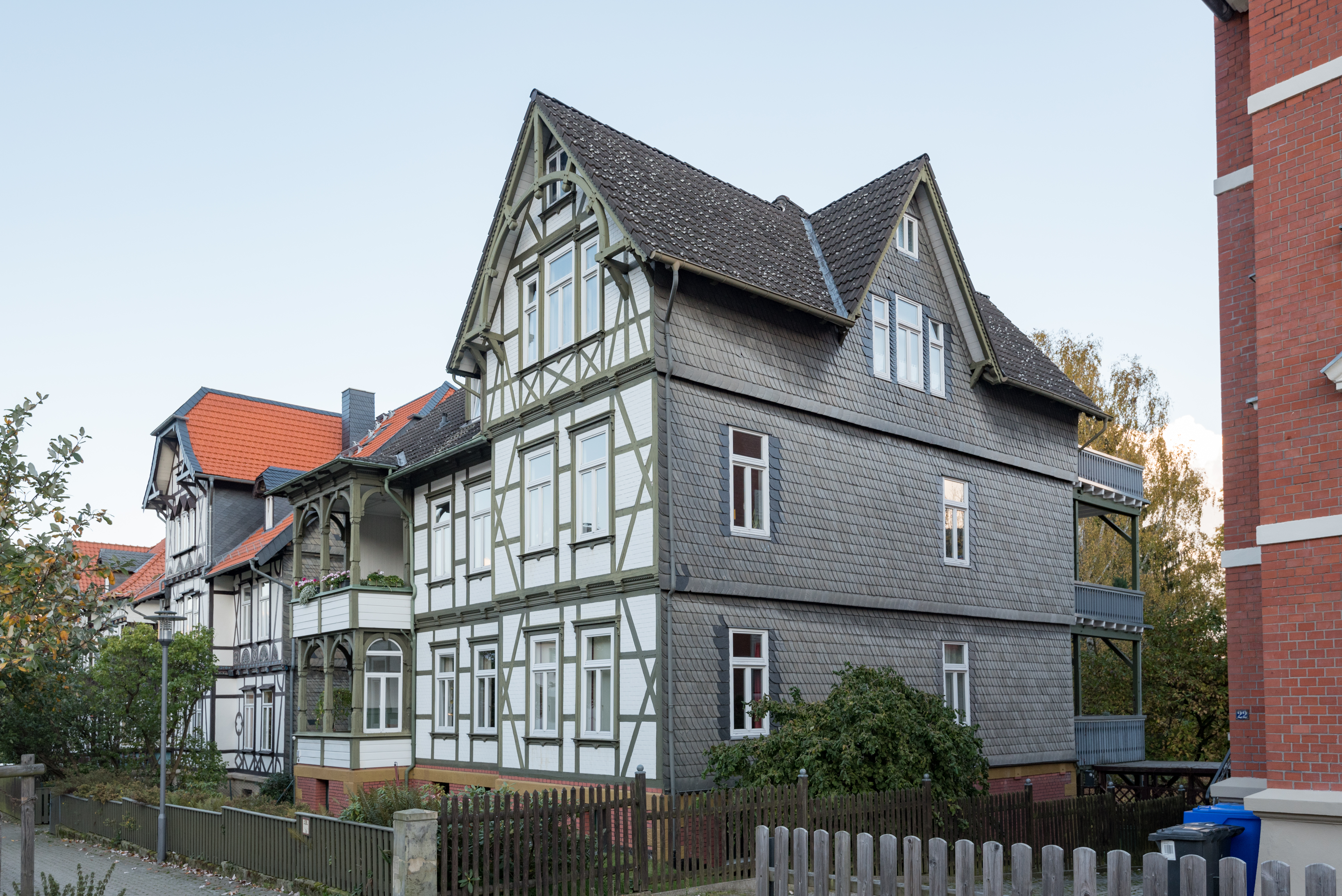 Goslar, Claustorwall 23